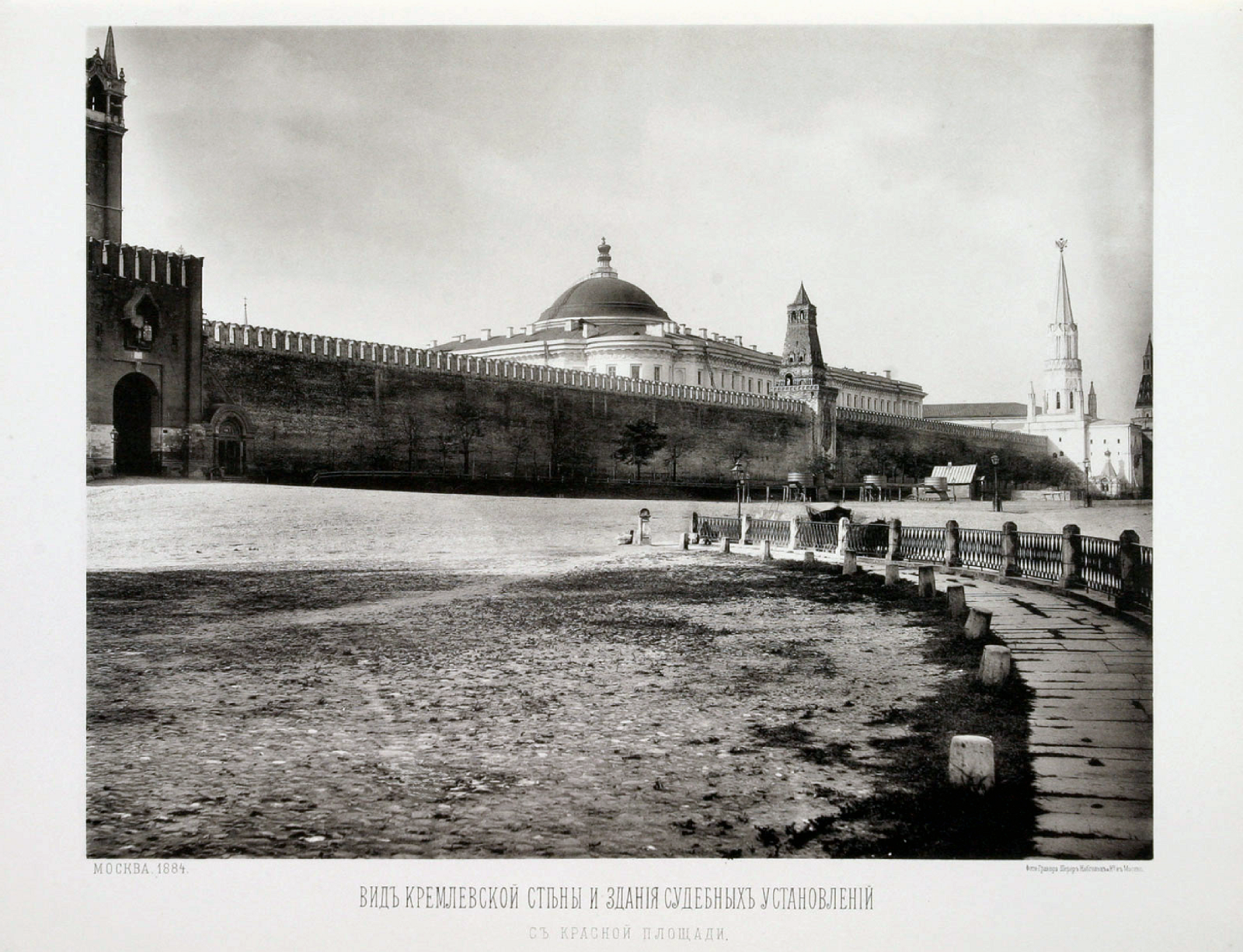 Plate 4. The Kremlin wall and the Court Regulations building (former and present-day Senate).